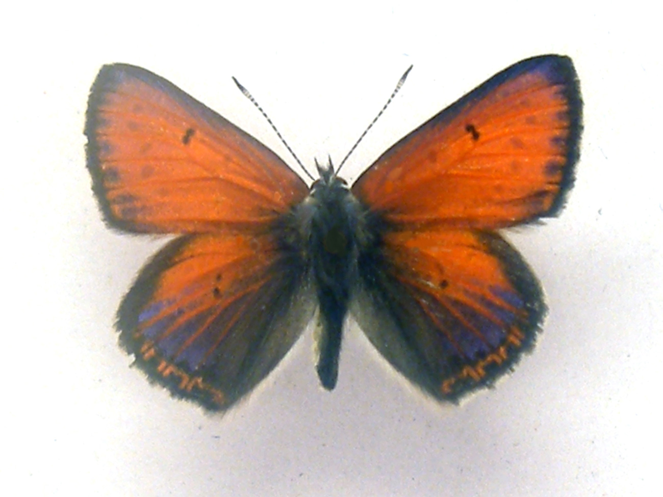 Lycaena hippothoe male (Linnaeus 1761)